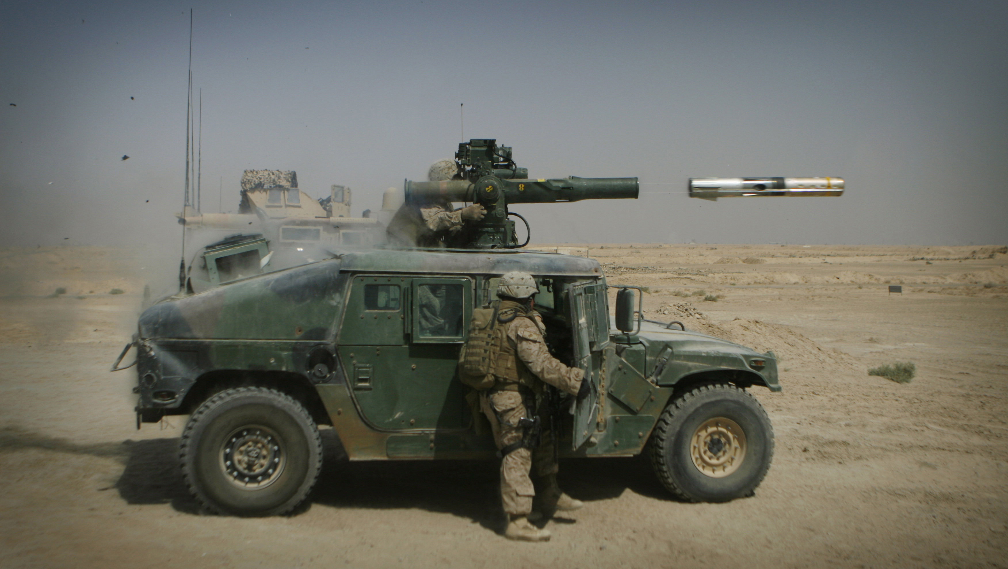 Lance Cpl. Jeffery Evans, a TOW gunner with Mobile Assault Platoon, Weapons Company, 3rd Battalion, 6th Marines, fires an M220 Tube-Launched, Optically Tracked Wire-Guided missile Sept. 21.